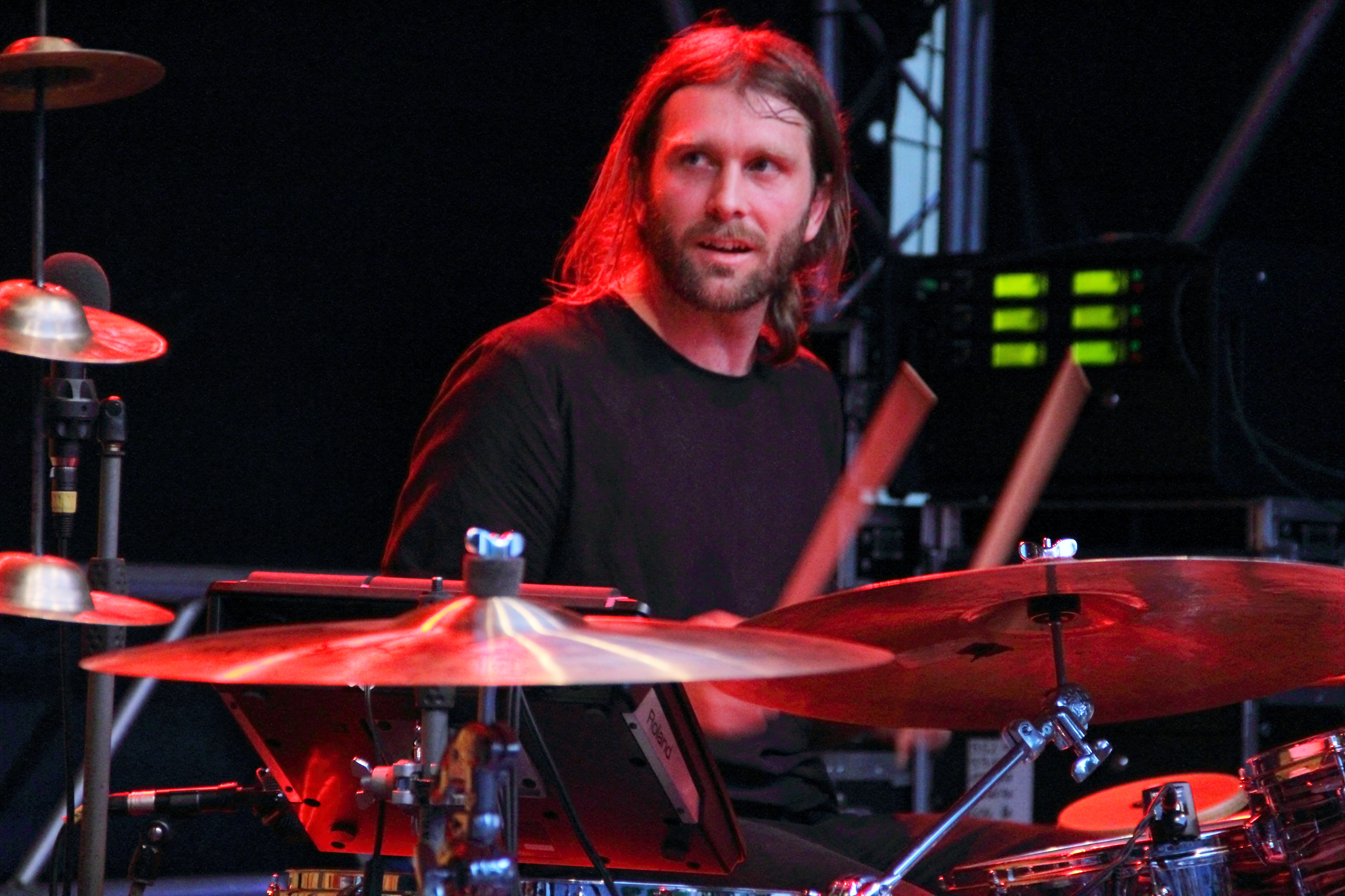 Wildbirds & Peacedrums at Rudolstadt-Festival 2016.